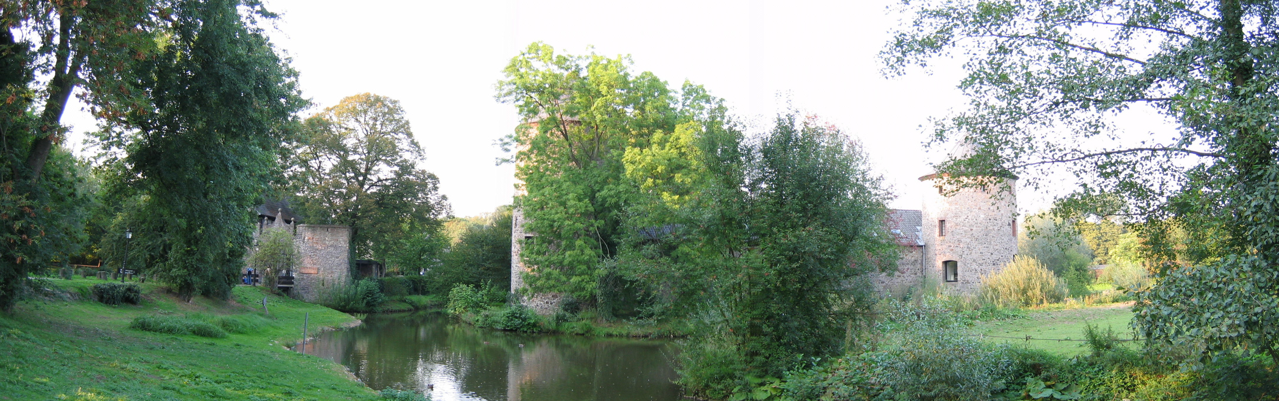 13th century moated castle Haus zum Haus in Ratingen, Germany